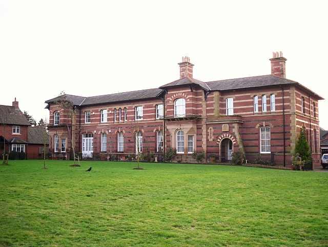 Converted hospital building